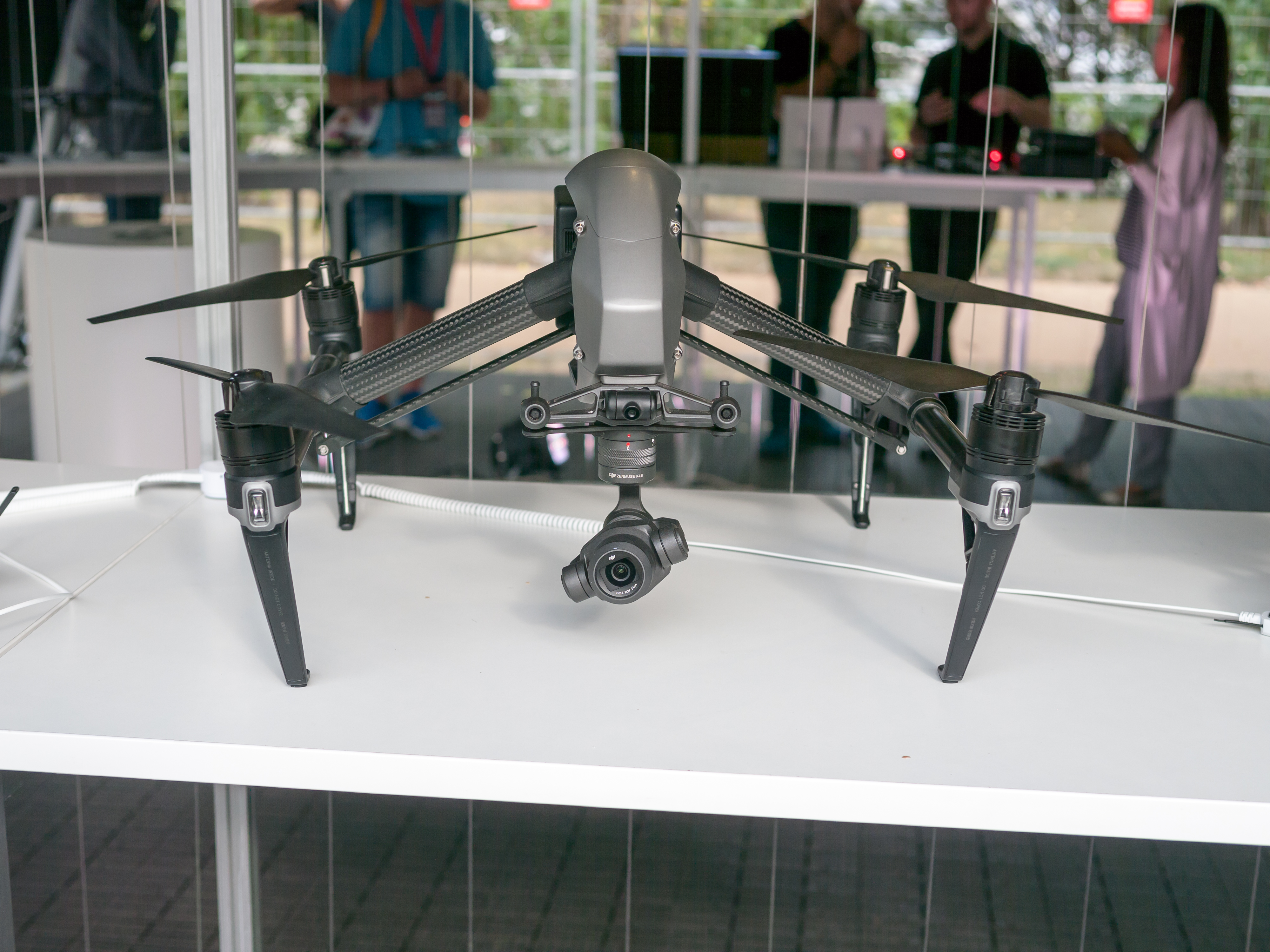 DJI Inspire 2 with Zenmuse X4S camera, Internationale Funkausstellung 2018, Berlin